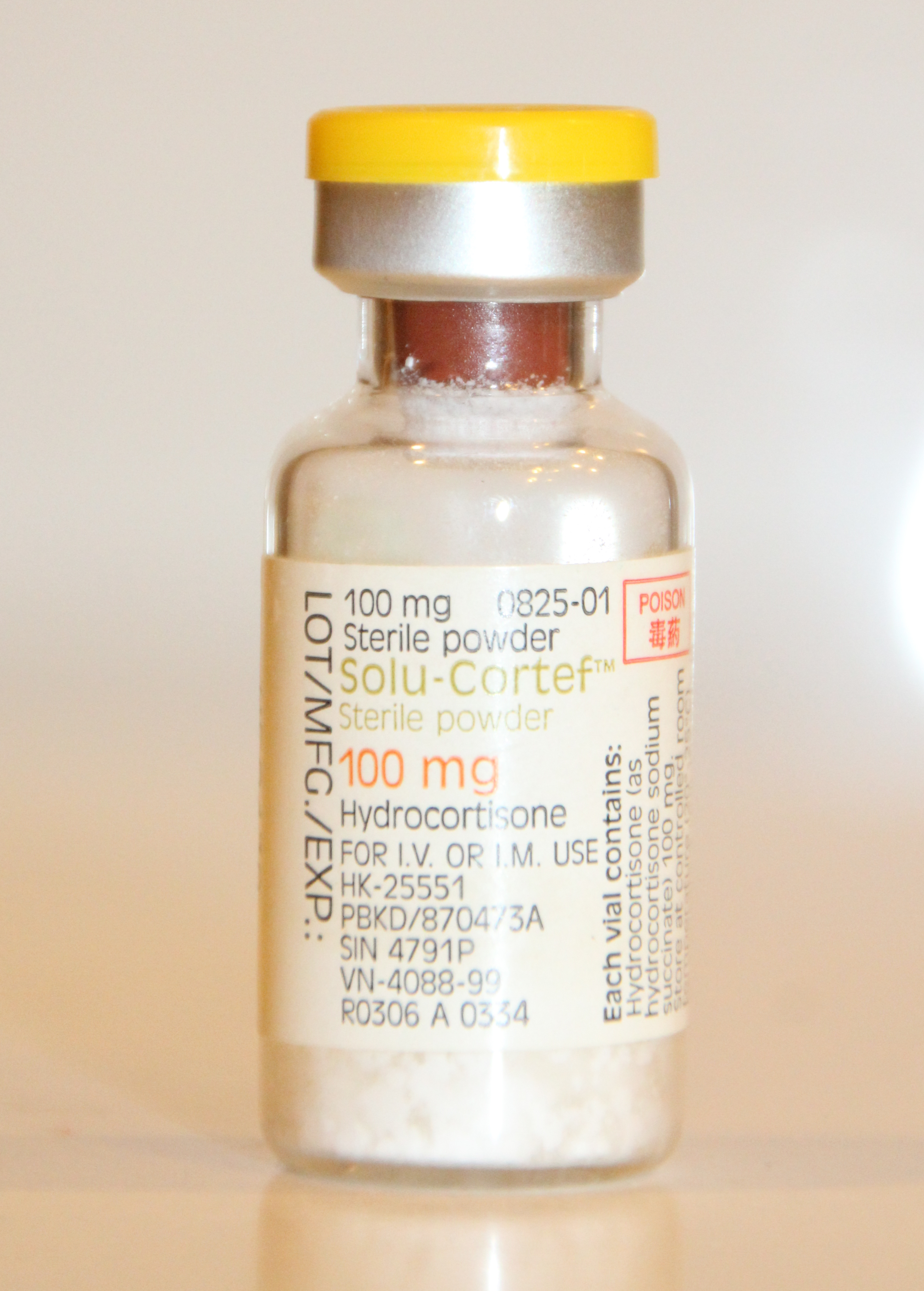 Glass injection vial. Sample of cortisol (hydrocortisone) for injection, 1 gram